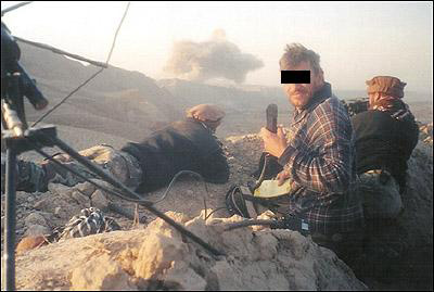 Original text on english Wikipedia was: "Air Force Combat Controllers in Afghanistan"